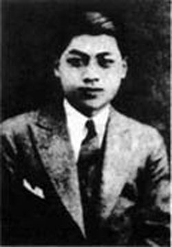 Liu Na-ou